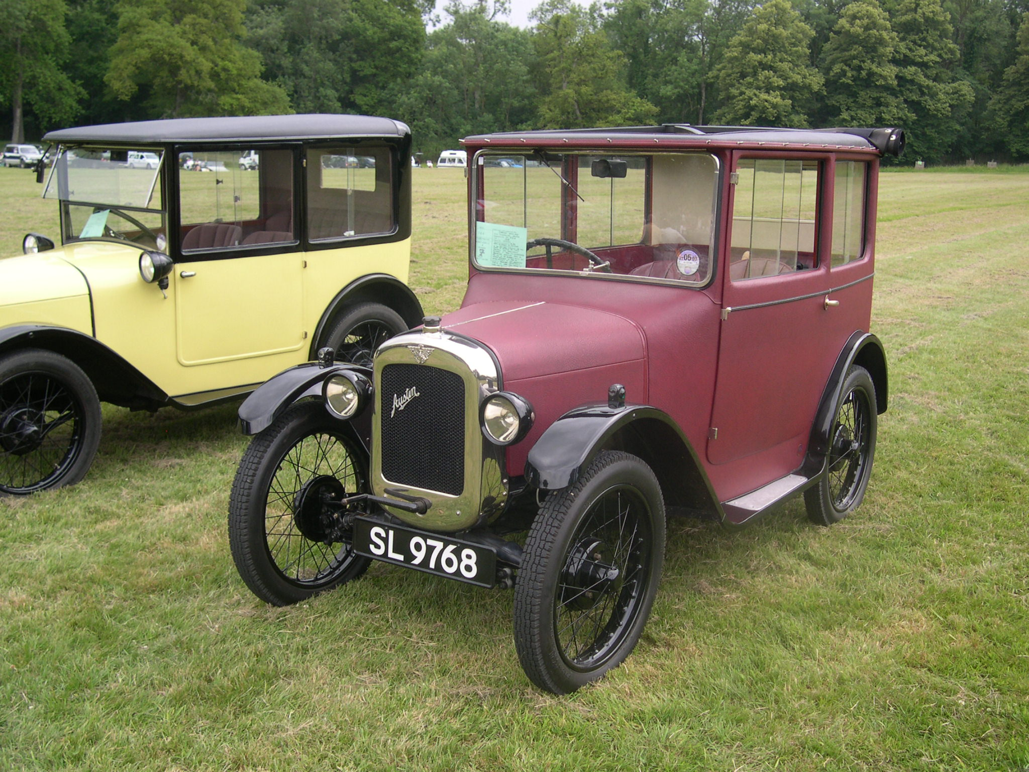 1928 Austin 7 Gordon England Sunshine Saloon Photographer's note The Freehollow Flyer - I had been waiting to see this car for more years than I can remember. Note taken from Brian Purves, Austin Seven Source Book:- Discovered in the USA believed taken to the United States for the 1928 New York International Motor Show. Gordon England No.263 with a recorded mileage of 3685 miles when found.